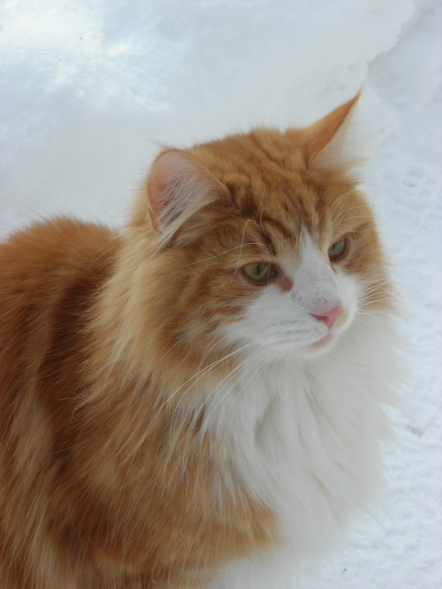 Close up of a Norwegian Forest Cat in snow. Red Tabby, named S* Reedbank Kadrilj, also called "Spock".